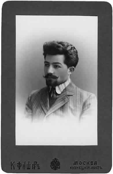 A portrait of Mikheil Asatiani, later a leading Georgian psychiatrist, while interning in Moscow in 1907.